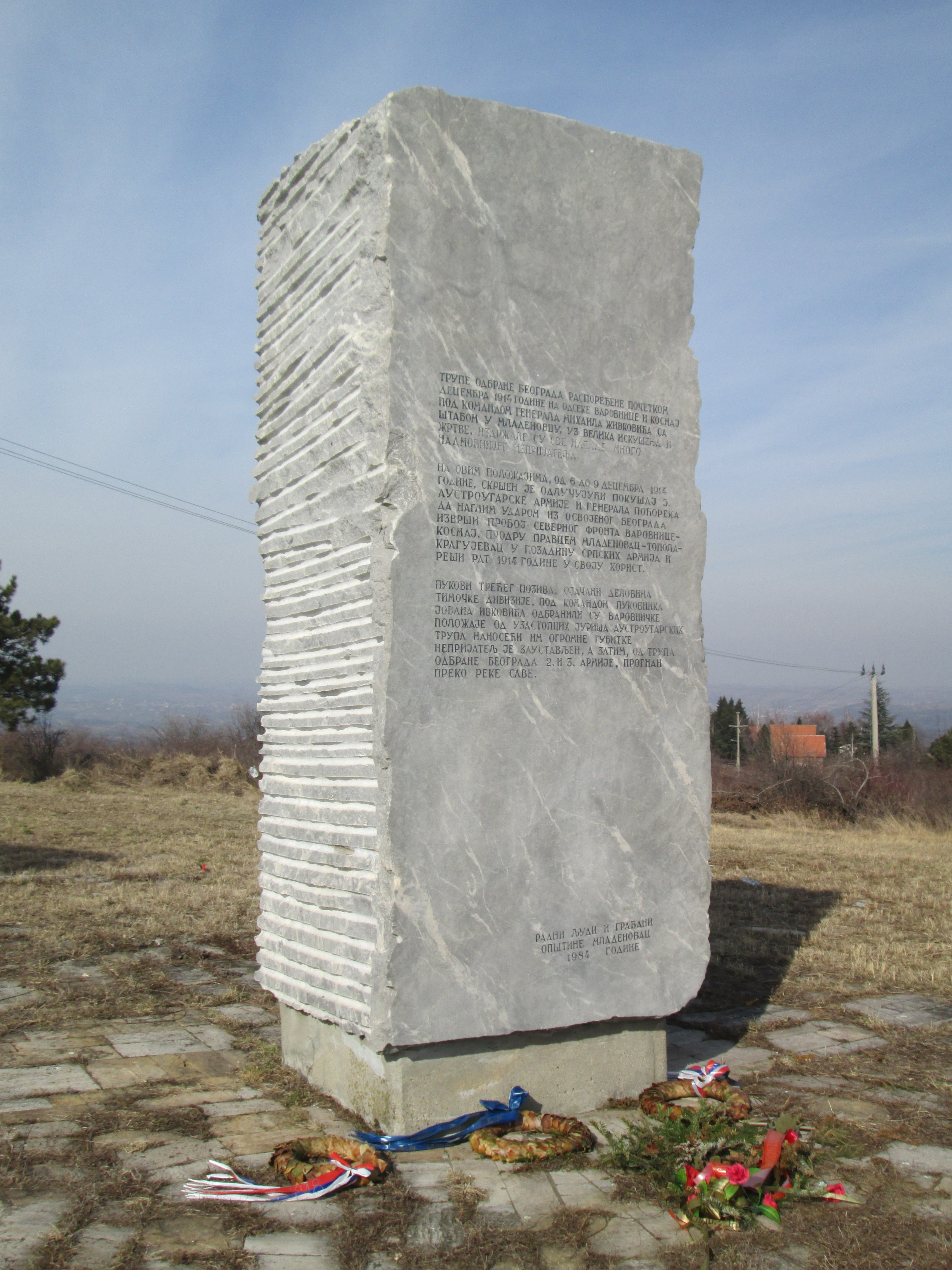 Monument to the fallen soldiers on Varovnica hill 6-9 December 1914. Српски (ћирилица): Споменик ратницима палим на Варовници 6—9. децембра 1914. године.